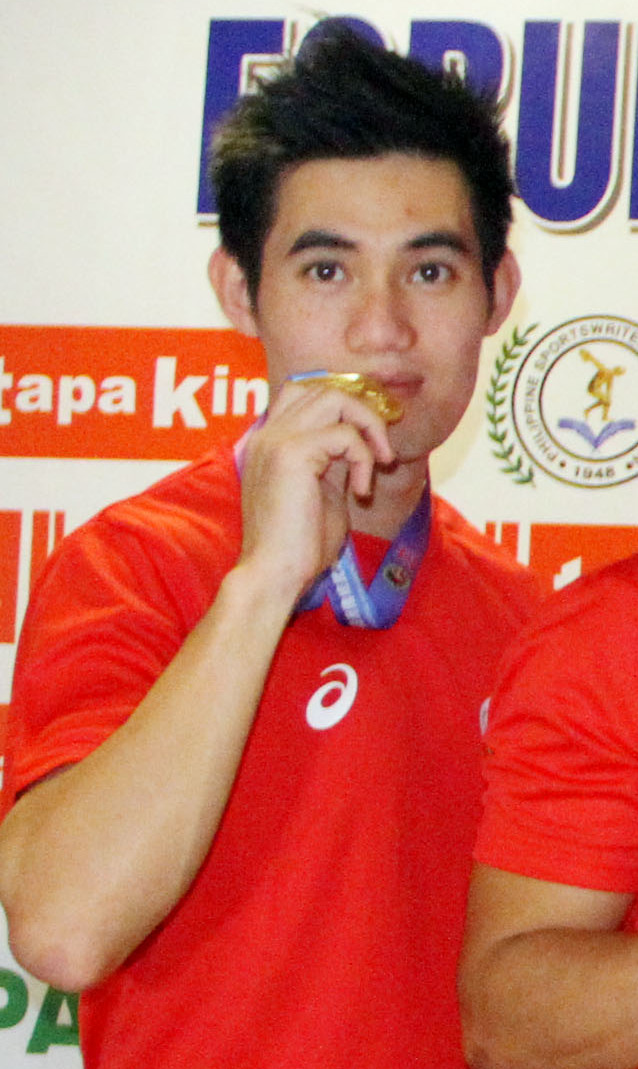 The medalists in the 1st Asian Traditional Wushu (Kung Fu) Championships graced the weekly Philippine Sportswriters Association (PSA) Forum at Tapa King in Cubao, Quezon City on Tuesday (December 11, 2018). From left are Daniel Parantac, Dave Degala, Agatha Wong, Johnzenth Gajo, Sandrex Gainsan and Jones Liares Inso.